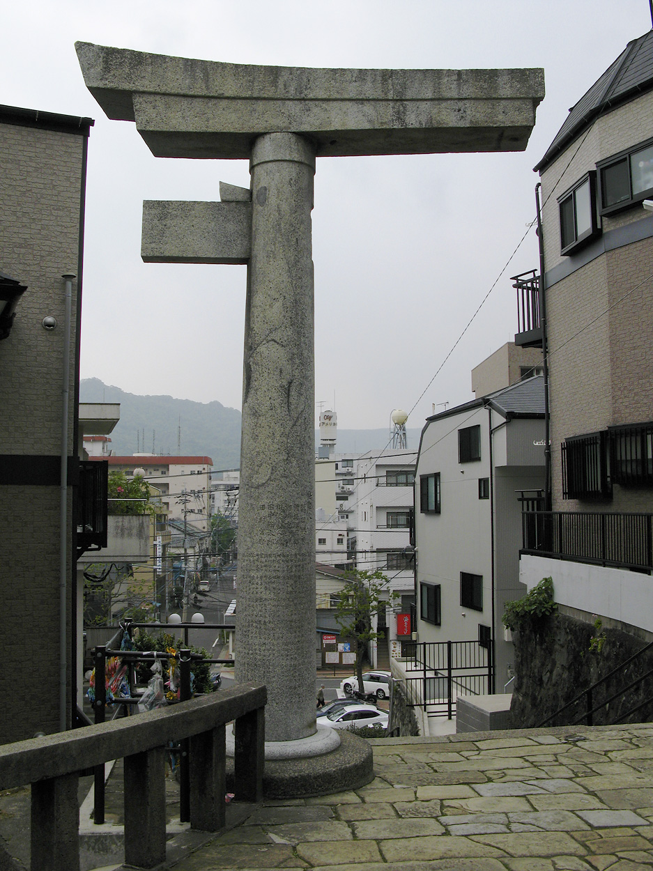 One-legged torii, Sannō Shrine, Nagasaki, Japan. It survived the atomic bomb on August 9, 1945. The other half was toppled in the explosion of the nuclear bomb.